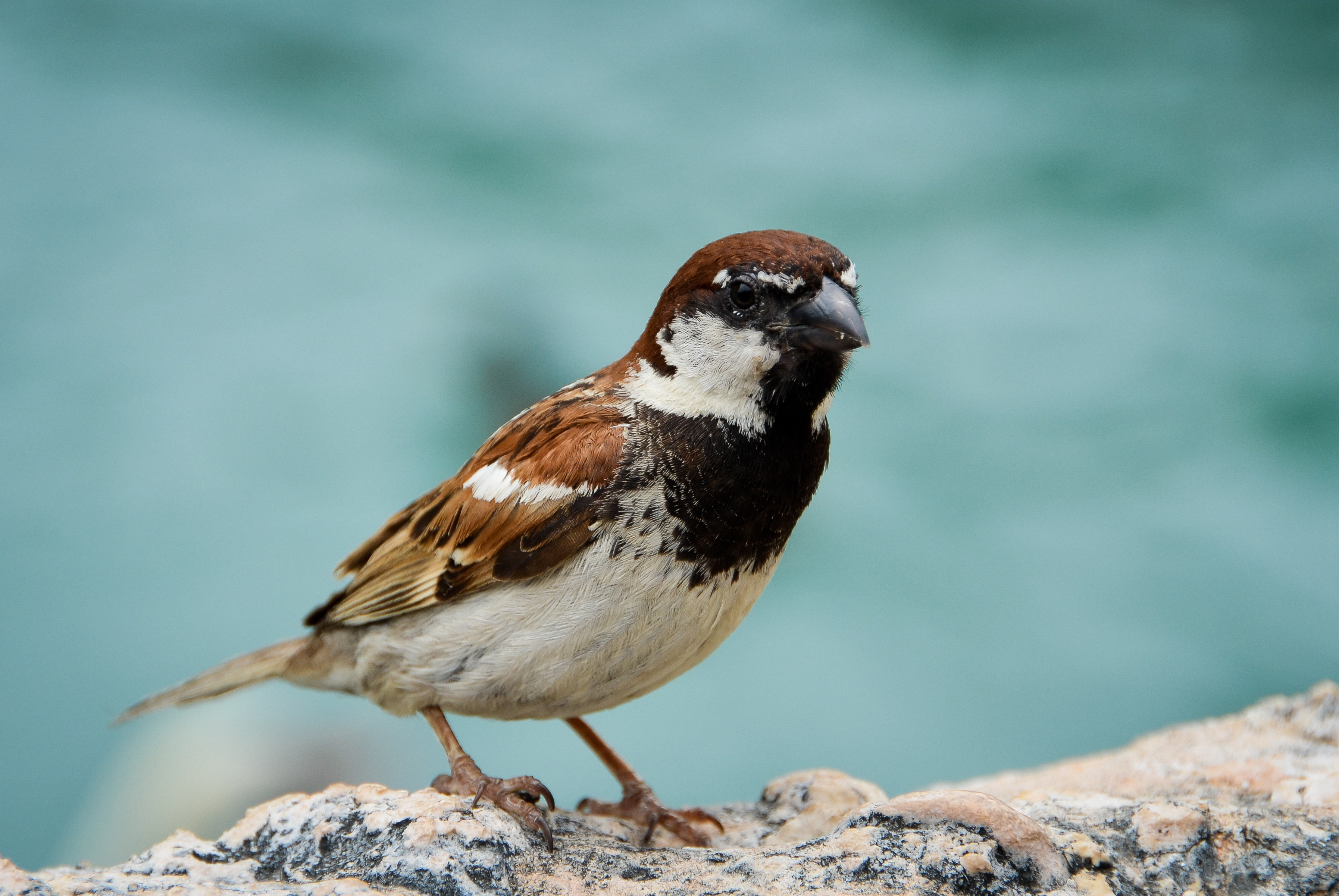 A male Italian Sparrow in Sirmione, Lombardy, Italy